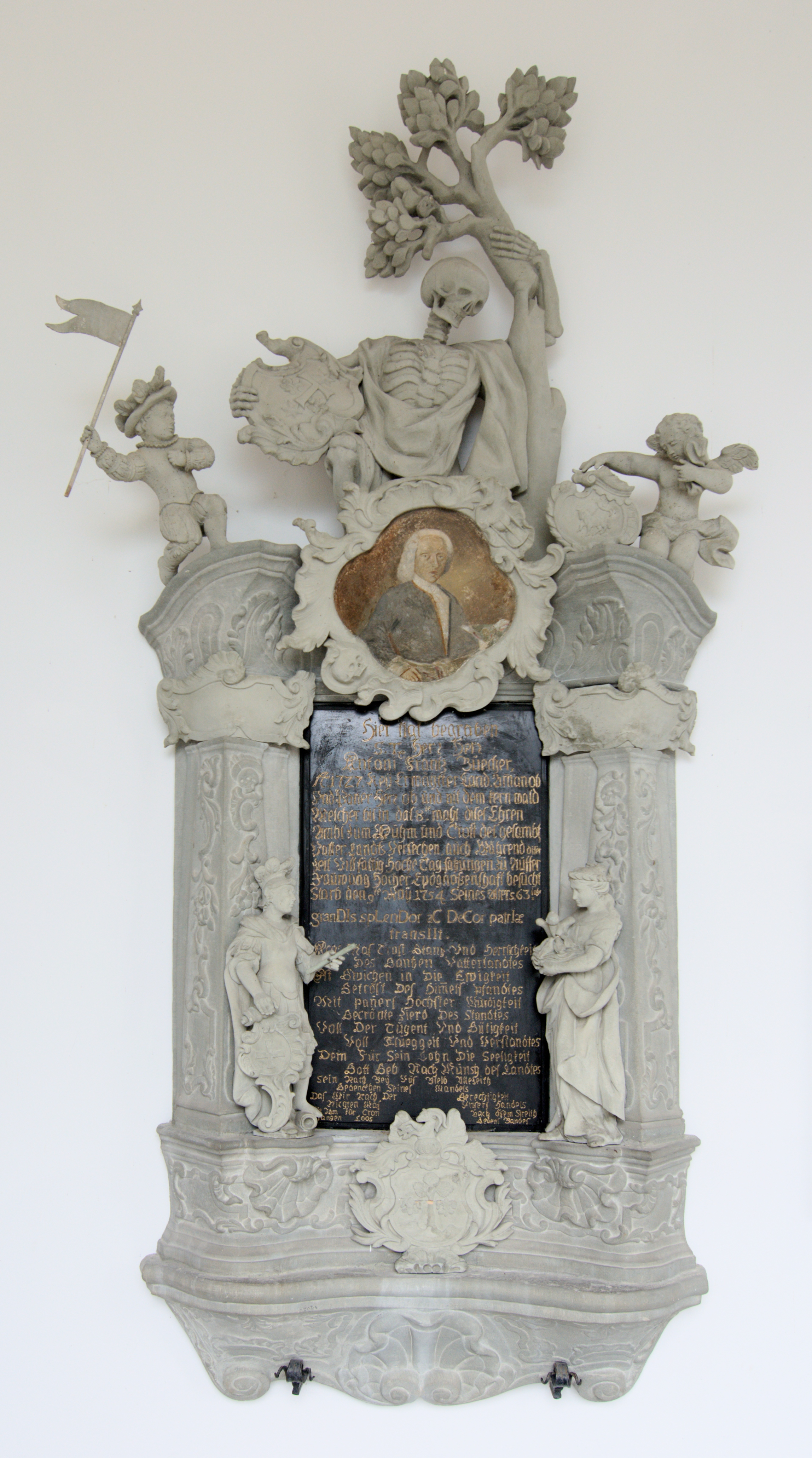 Epitaph of the Landammann Anton Franz Bucher, 1754, in the portal hall of St. Peter and Paul in Sarnen